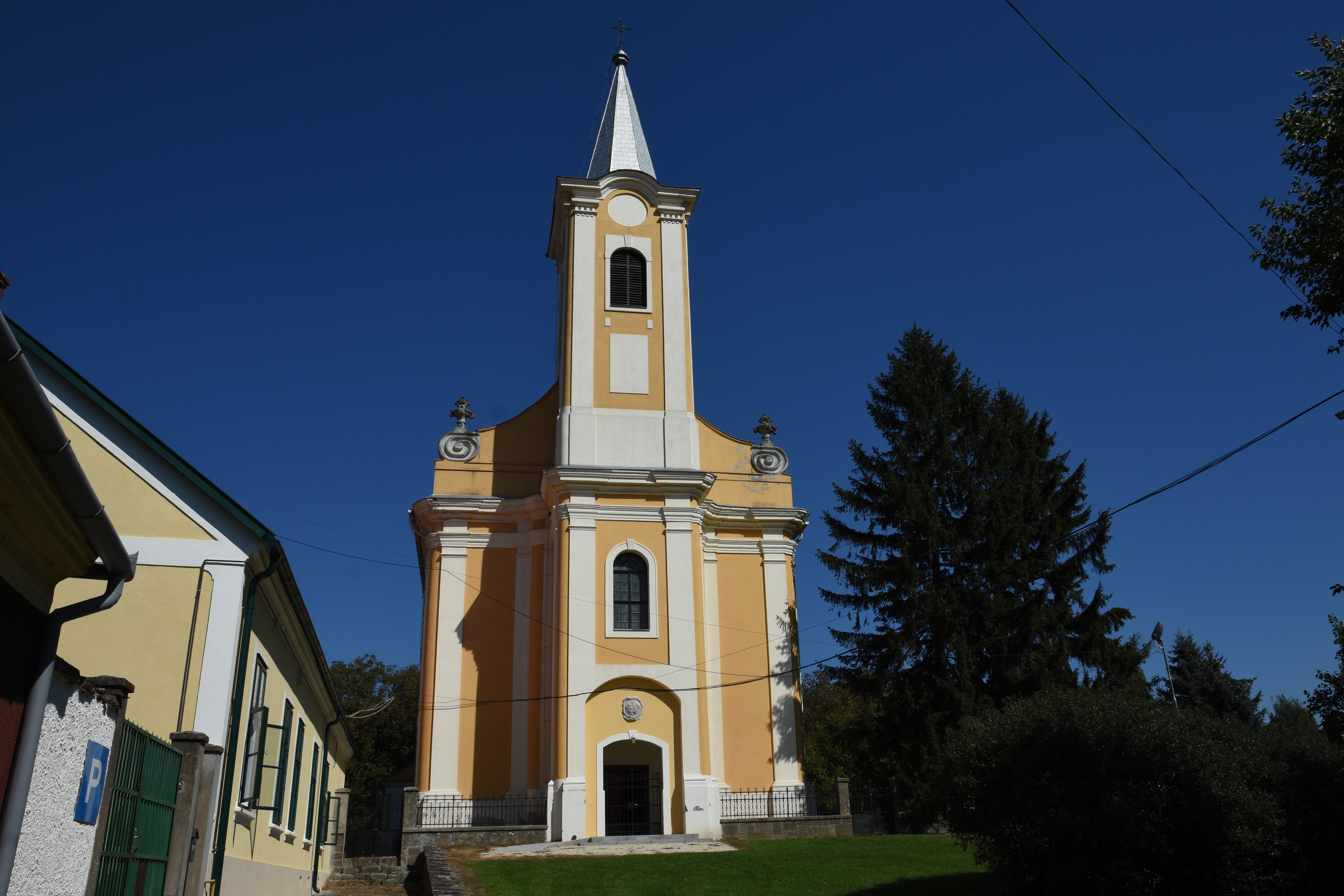 Sitke Church Vas County